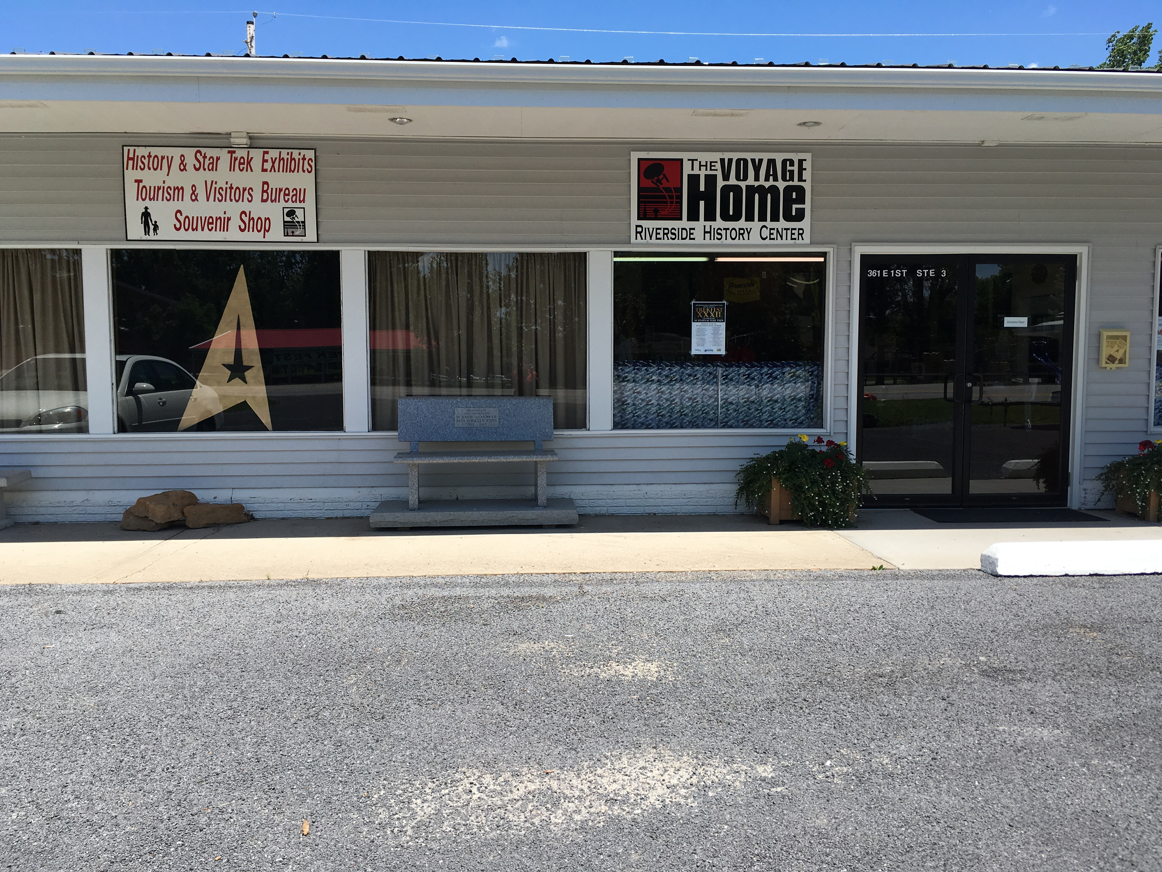 This building in Riverside, Iowa currently houses the Star Trek exhibit.